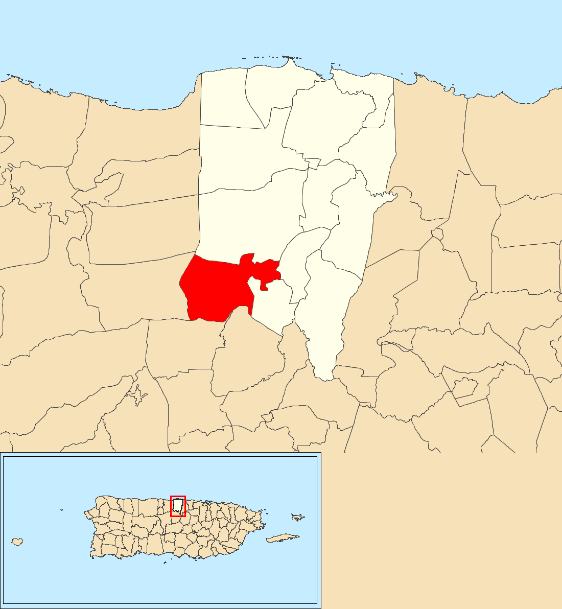 Pugnado Adentro, Vega Baja, Puerto Rico locator map